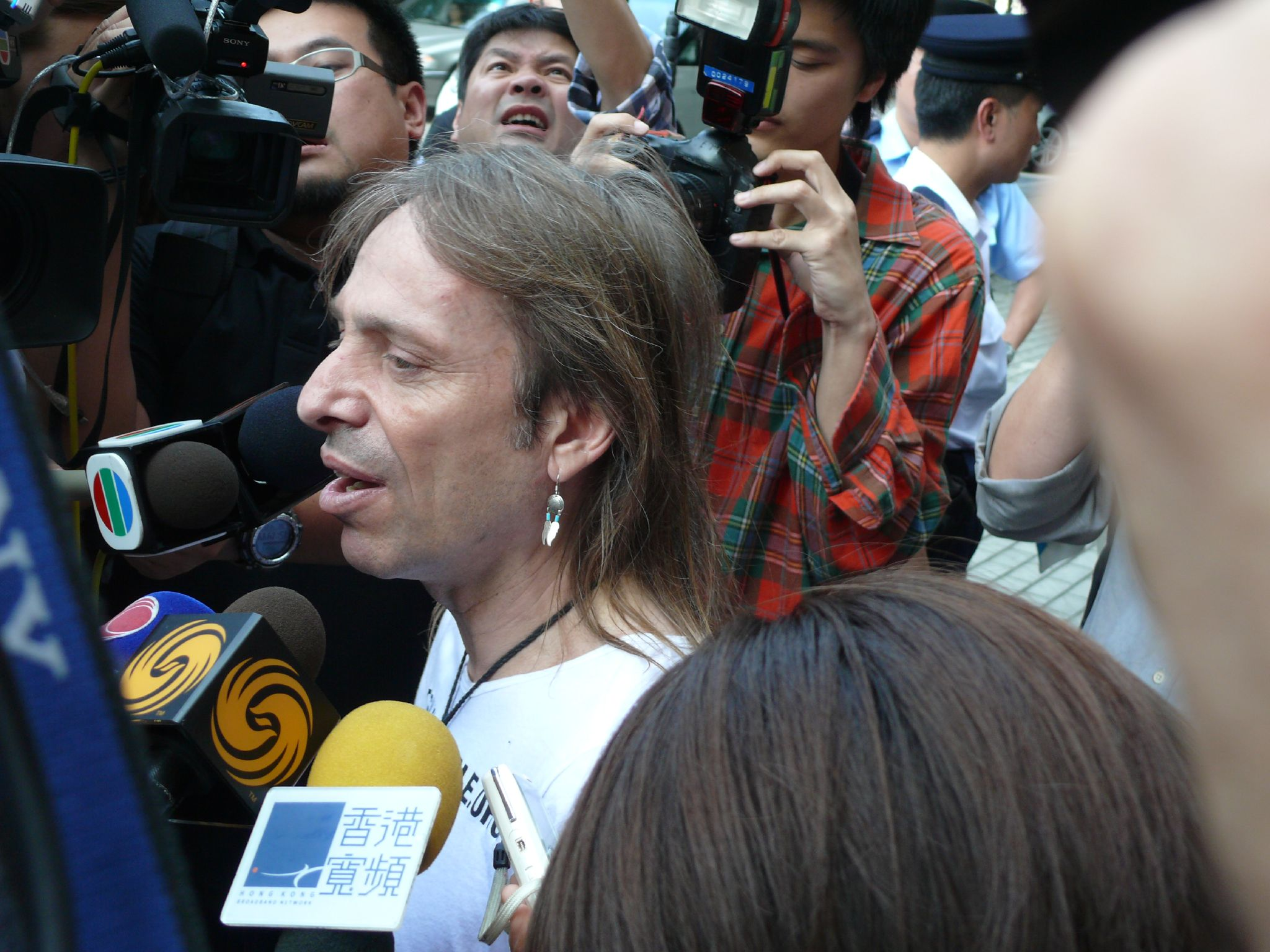 Alain Robert takes an interview after the next conquest of the building.